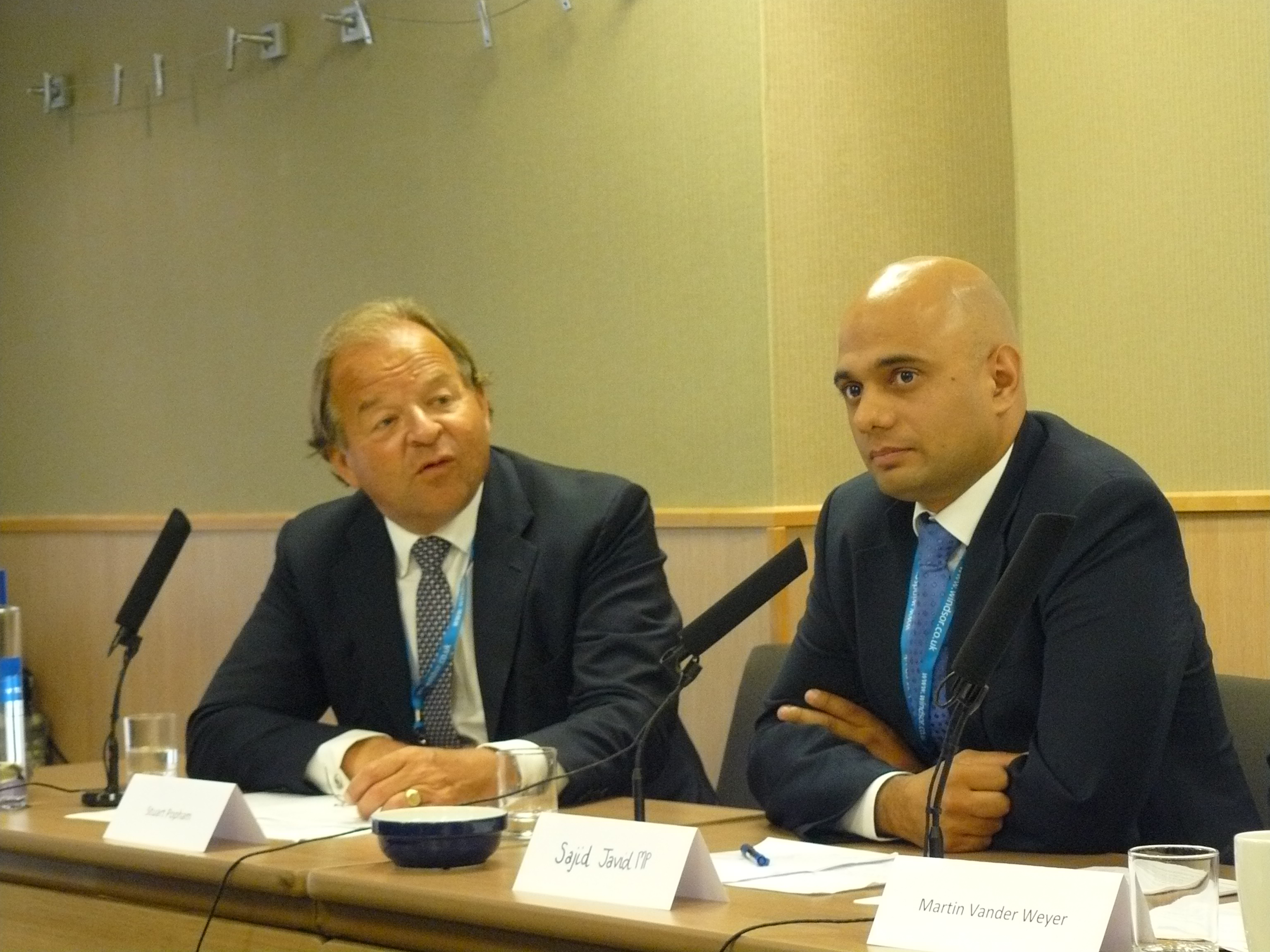 Policy Exchange Conservative Conference Fringe Event: A Risky Business? How can we build a safe and internationally competitive banking system for the UK? 03.10.11